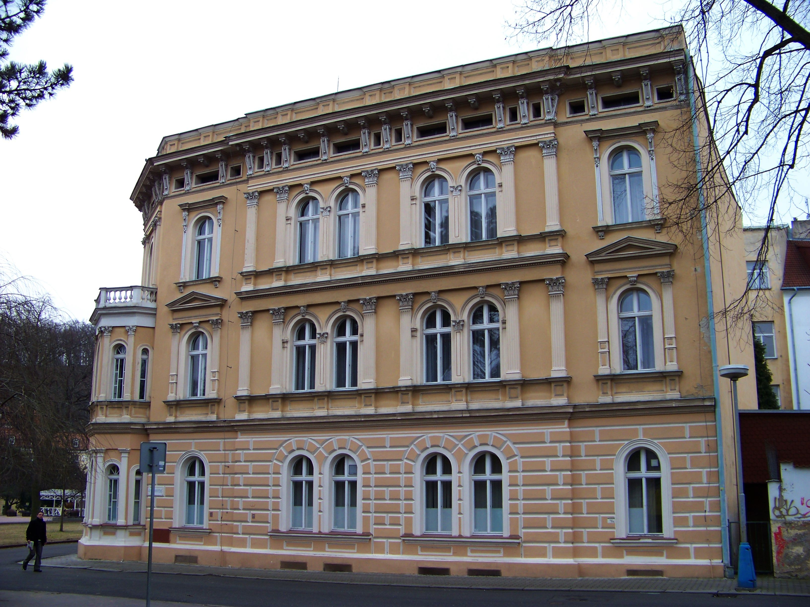 Teplice, Teplice District, Ústí nad Labem Region, the Czech Republic. Českobratrská 738, spa building Jirásek. - OpenStreetMap(Info)